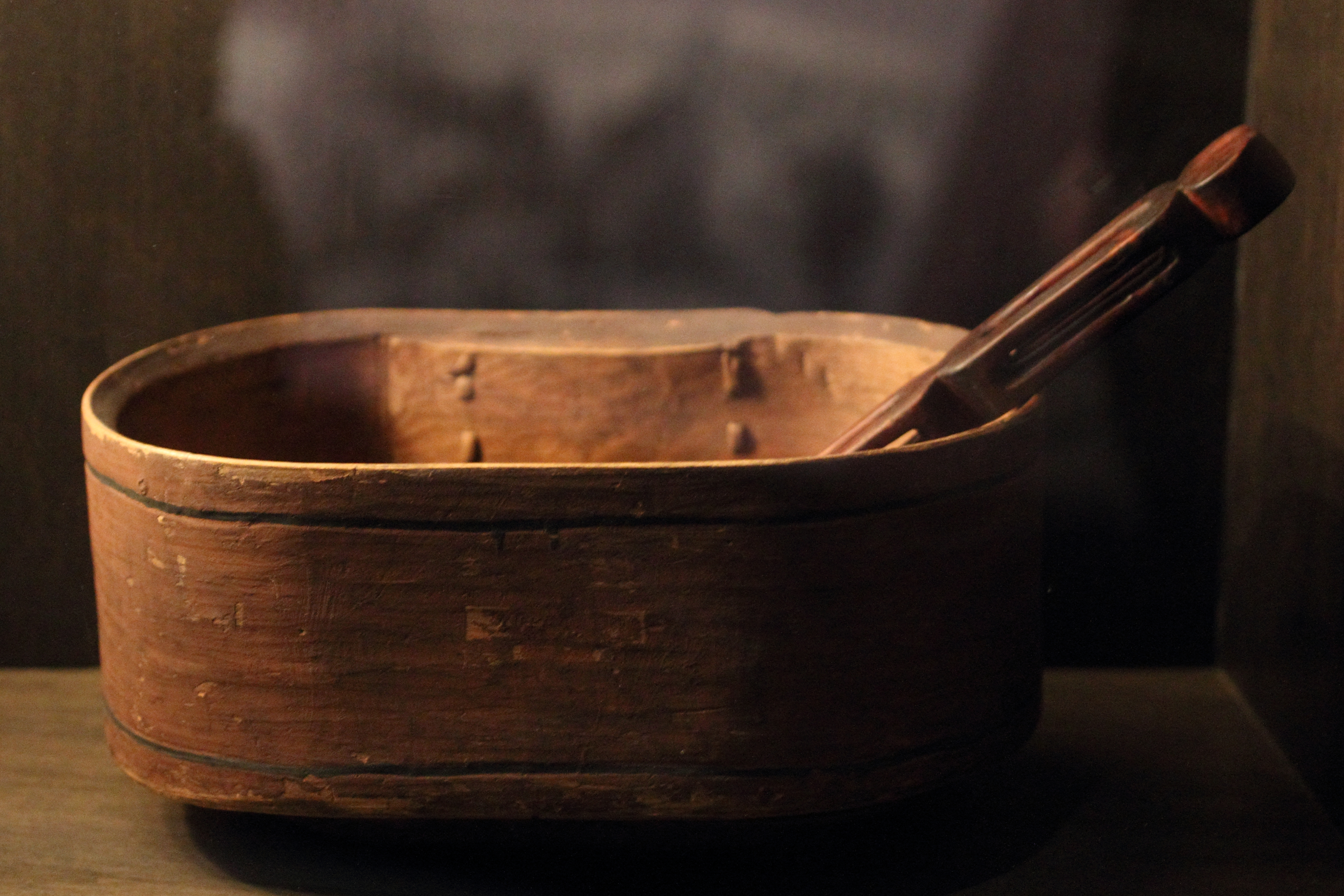 Tumnaq used to make Native ice cream, circa 1910 (21/1723)